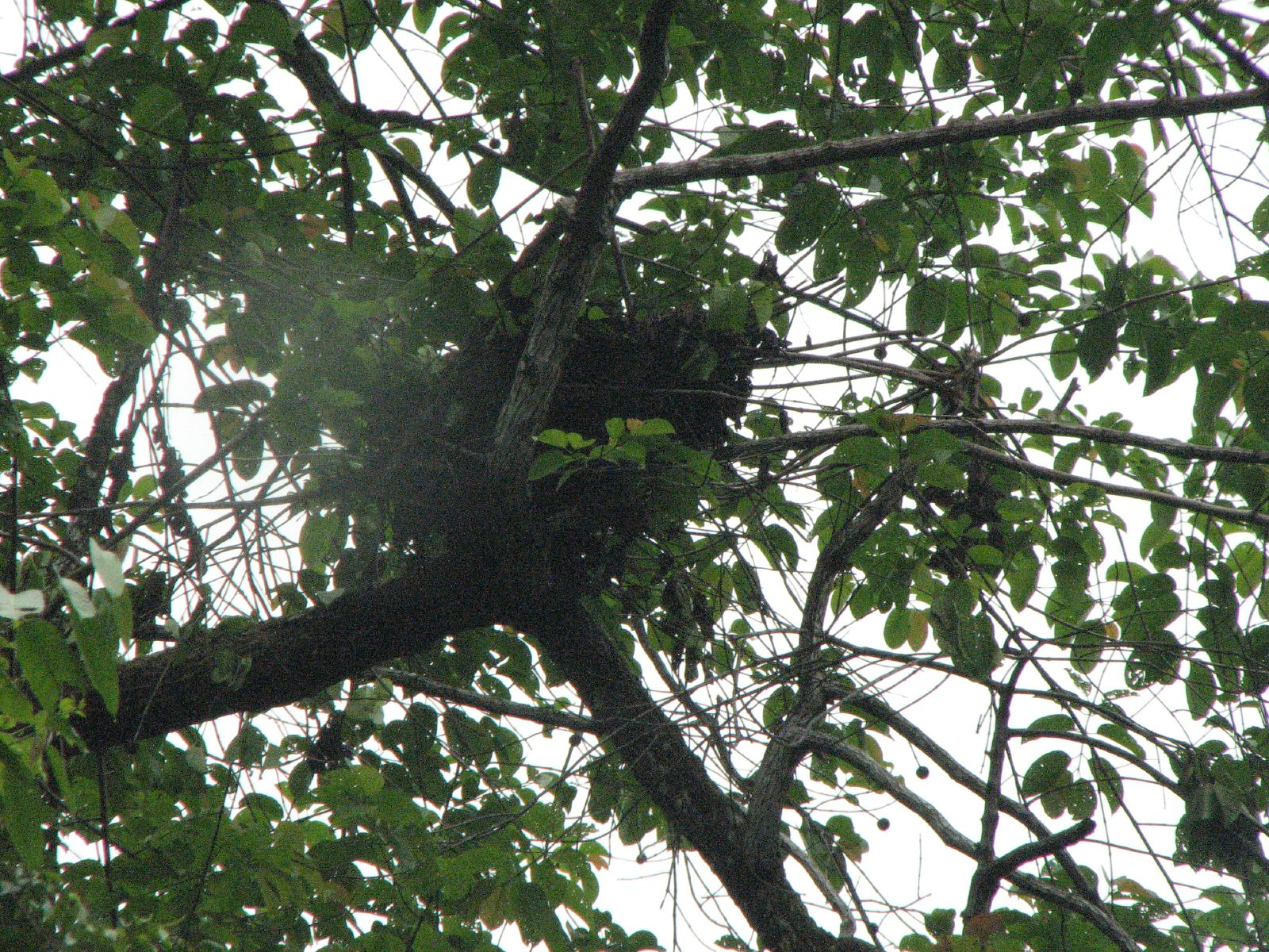 This photo of an Orangutan nest was taken by Rob and Stephanie Levy at Sukua, Sabah, Borneo on December 14, 2007 using a Canon PowerShot S3 IS.